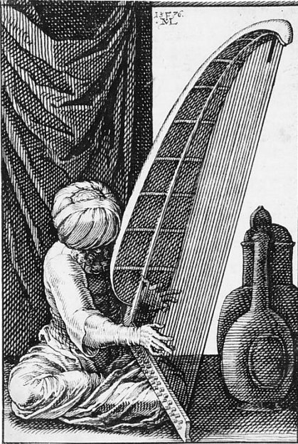 Engraving of a Çeng, Turkish angular harp